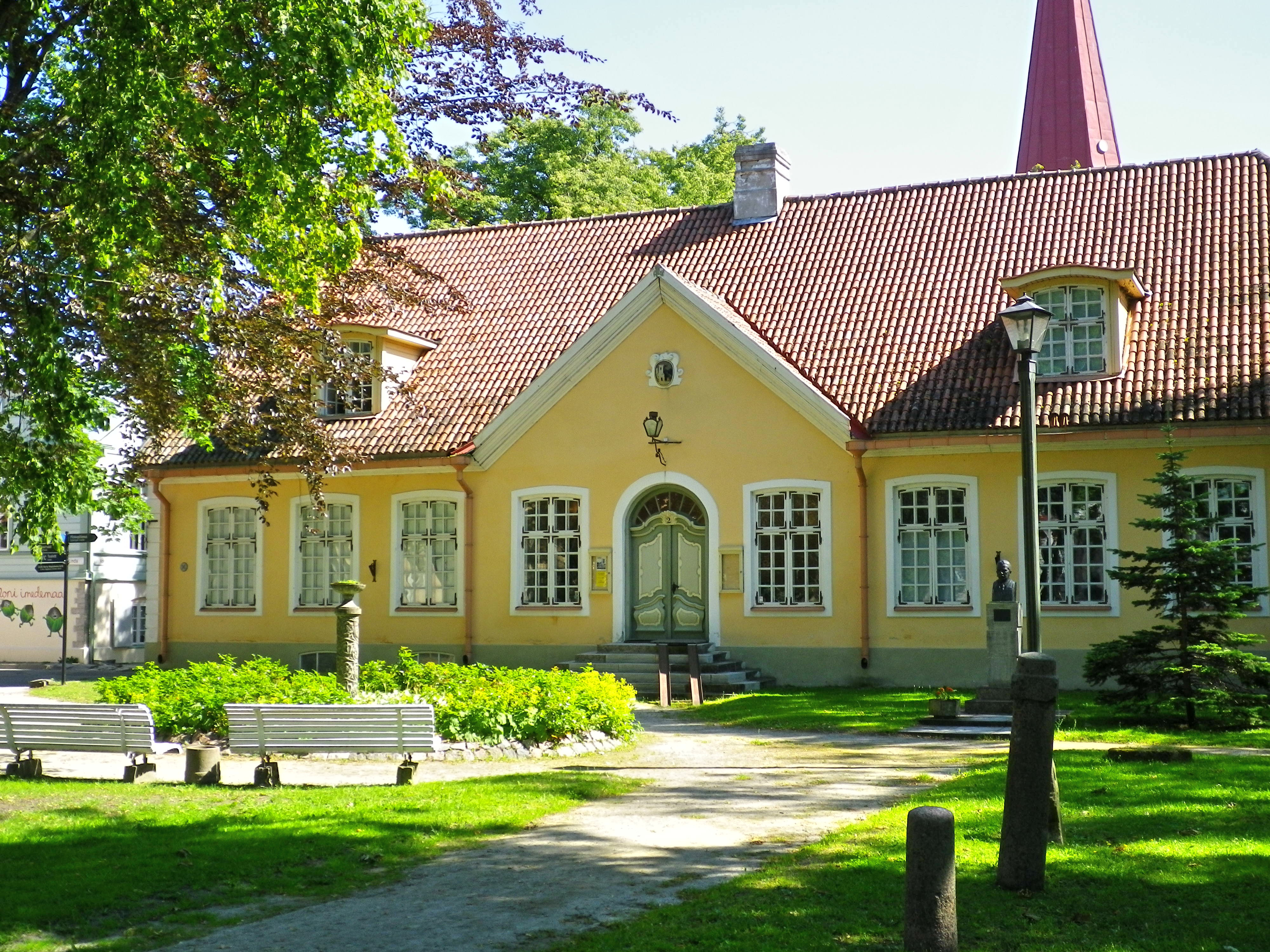 Former Haapsalu town hall, now museum of Läänemaa county